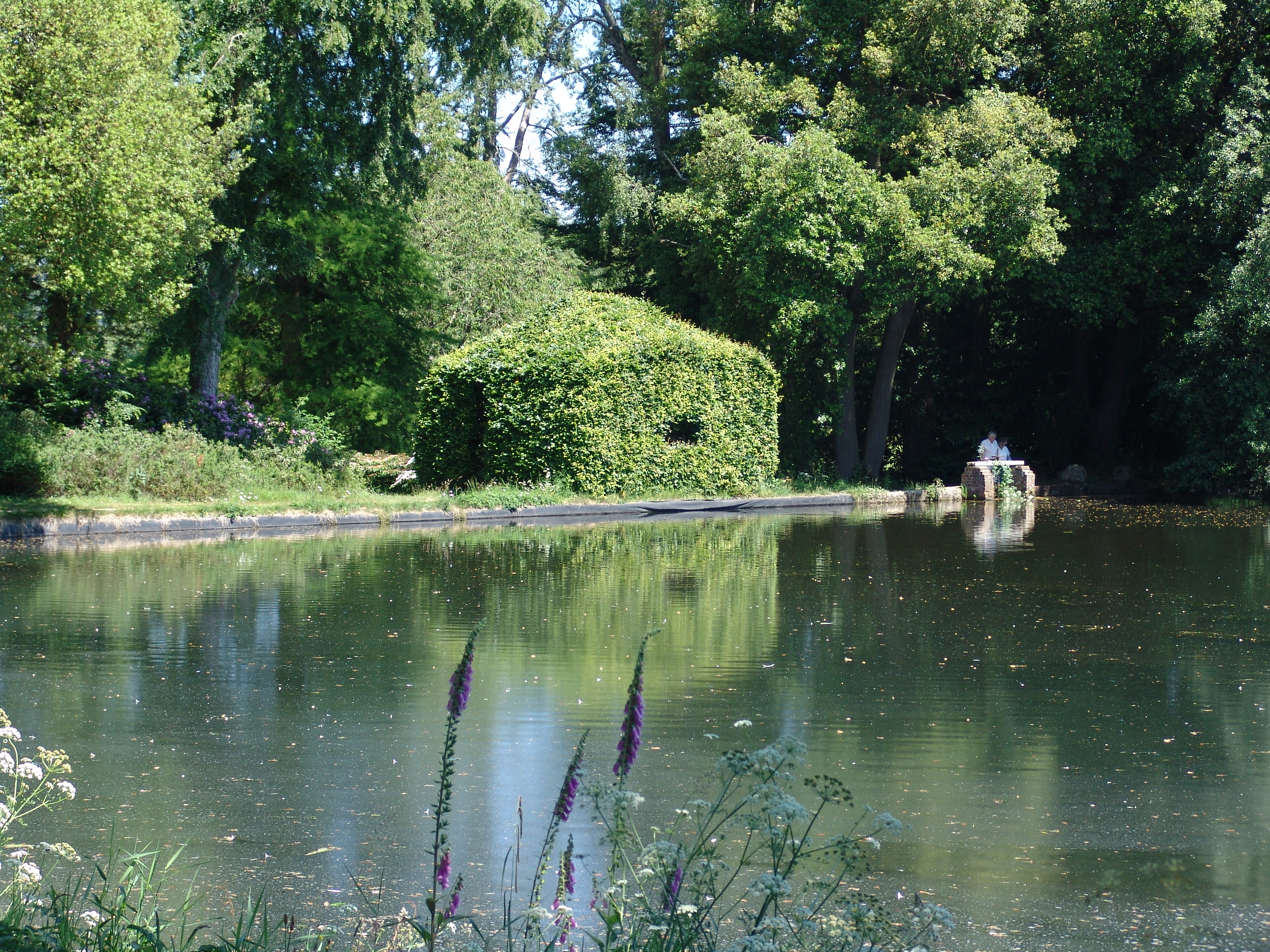 Beech House grown around a frame at Forde Abbey in Dorset. Used for birdwatching.